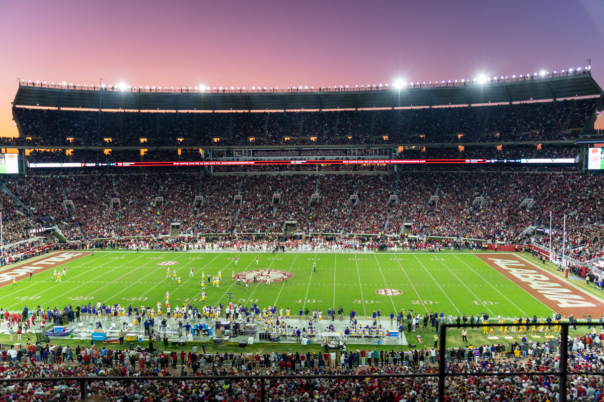 Game action is seen on the field at Bryant-Denny Stadium Saturday, Nov. 9, 2019, during the University of Alabama -Louisiana State University football game in Tuscaloosa, Ala., where LSU defeated Alabama 46-41. (Official White House Photo by Shealah Craighead)